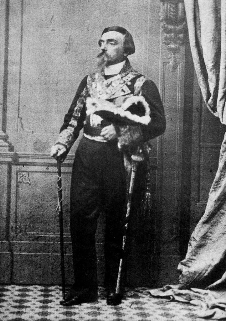 Infante Sebastian of Portugal and Spain (1811-1875).